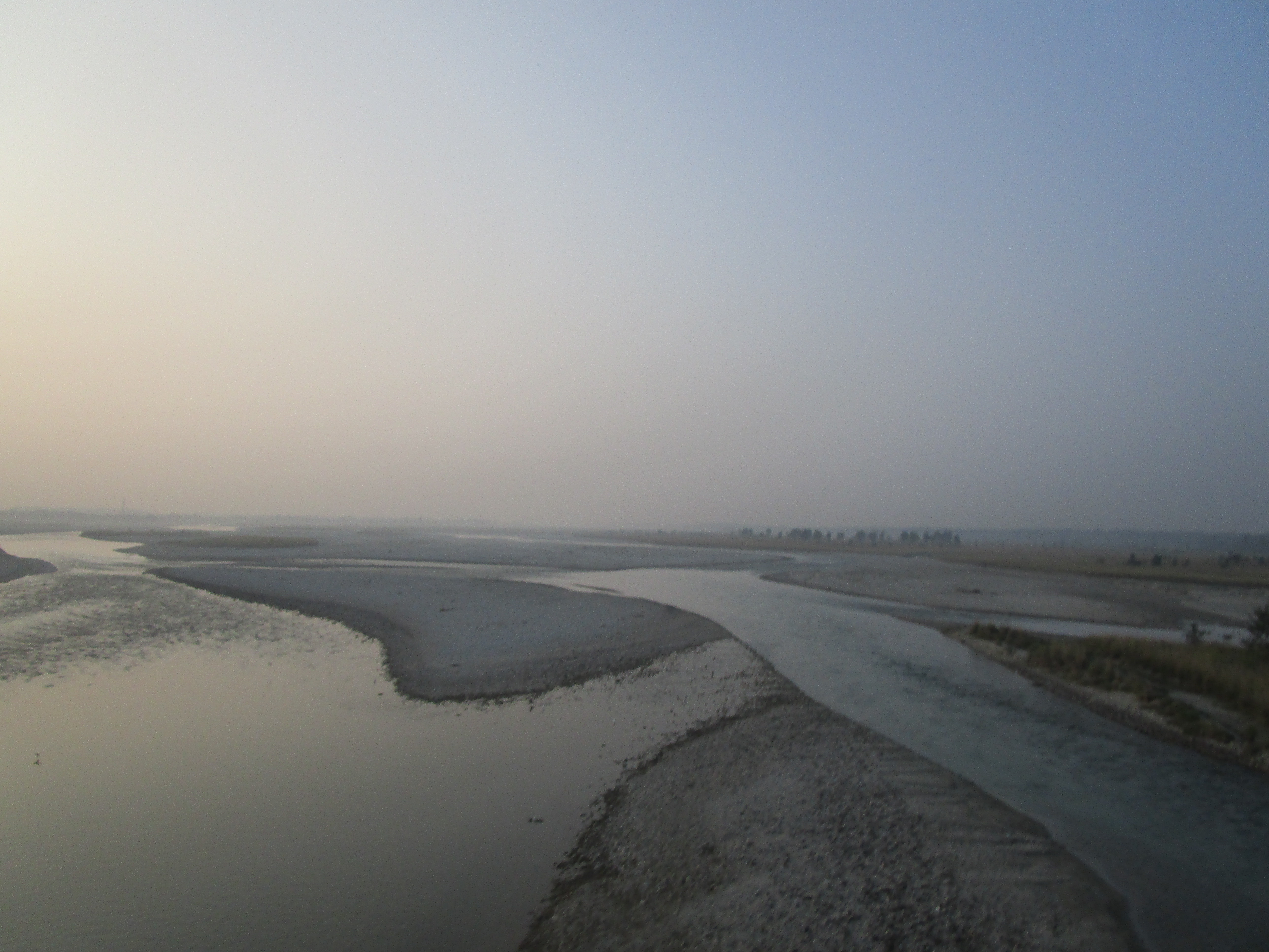 Torsha River at Hasimara, Image taken from NH31C.